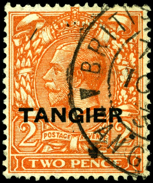 United Kingdom Tangier 2-pence stamp of 1927